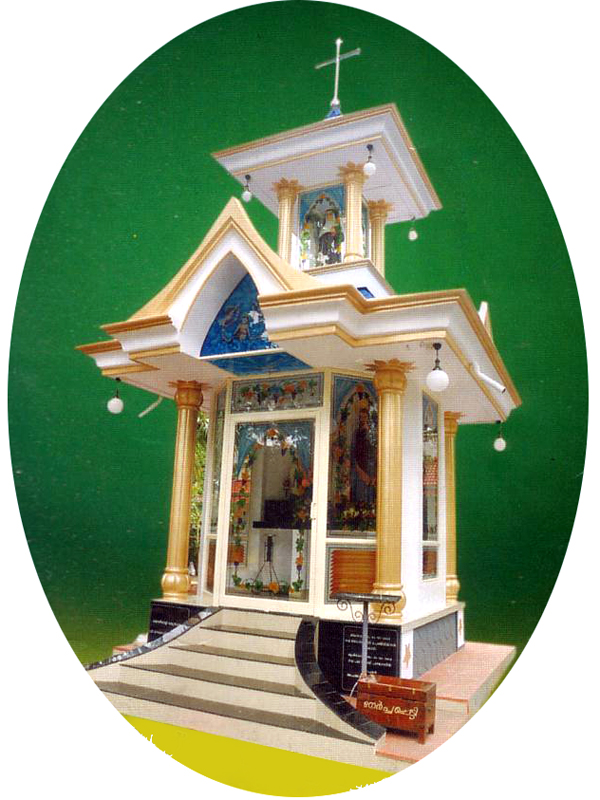 st joseph chappel americankettu